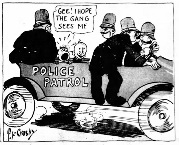 A single panel from the comic strip "The Clancy Kids" by American cartoonist Percy Crosby (1891–1964).